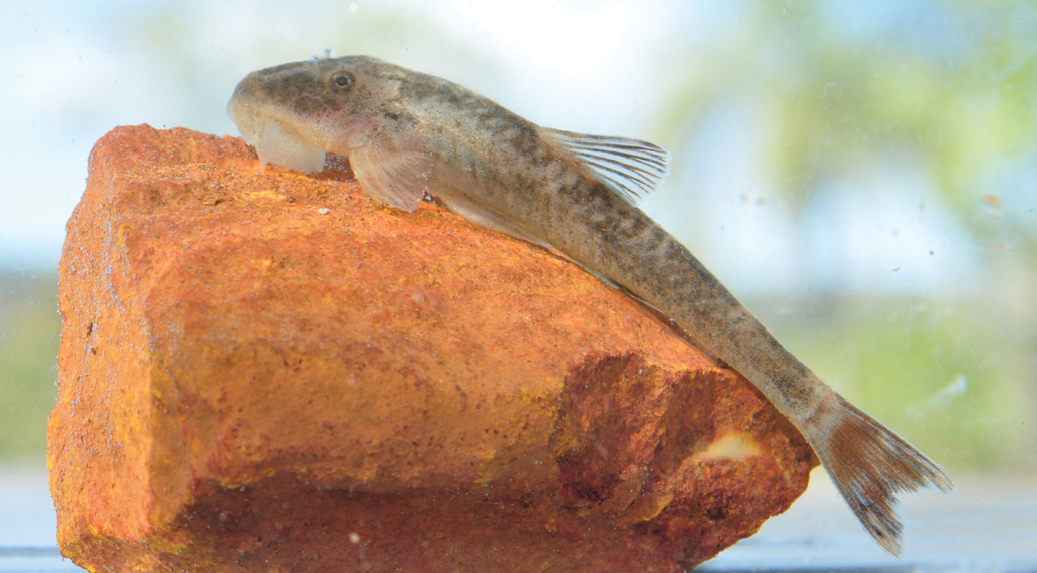 Rhinolekos capetinga MZUSP 116102, holotype, male, 37.5 mm SL, Goiás State, rio Tocantins basin, Brazil.